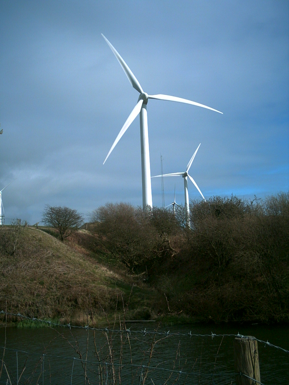 Taken by me, shows the Askam wind turbines.